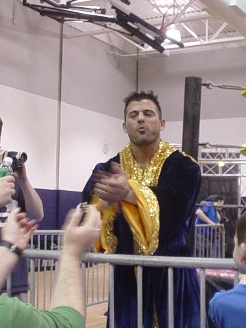 Professional wrestler Matt Striker (Matthew Kaye) at an NWA Cyberspace show on March 26, 2005